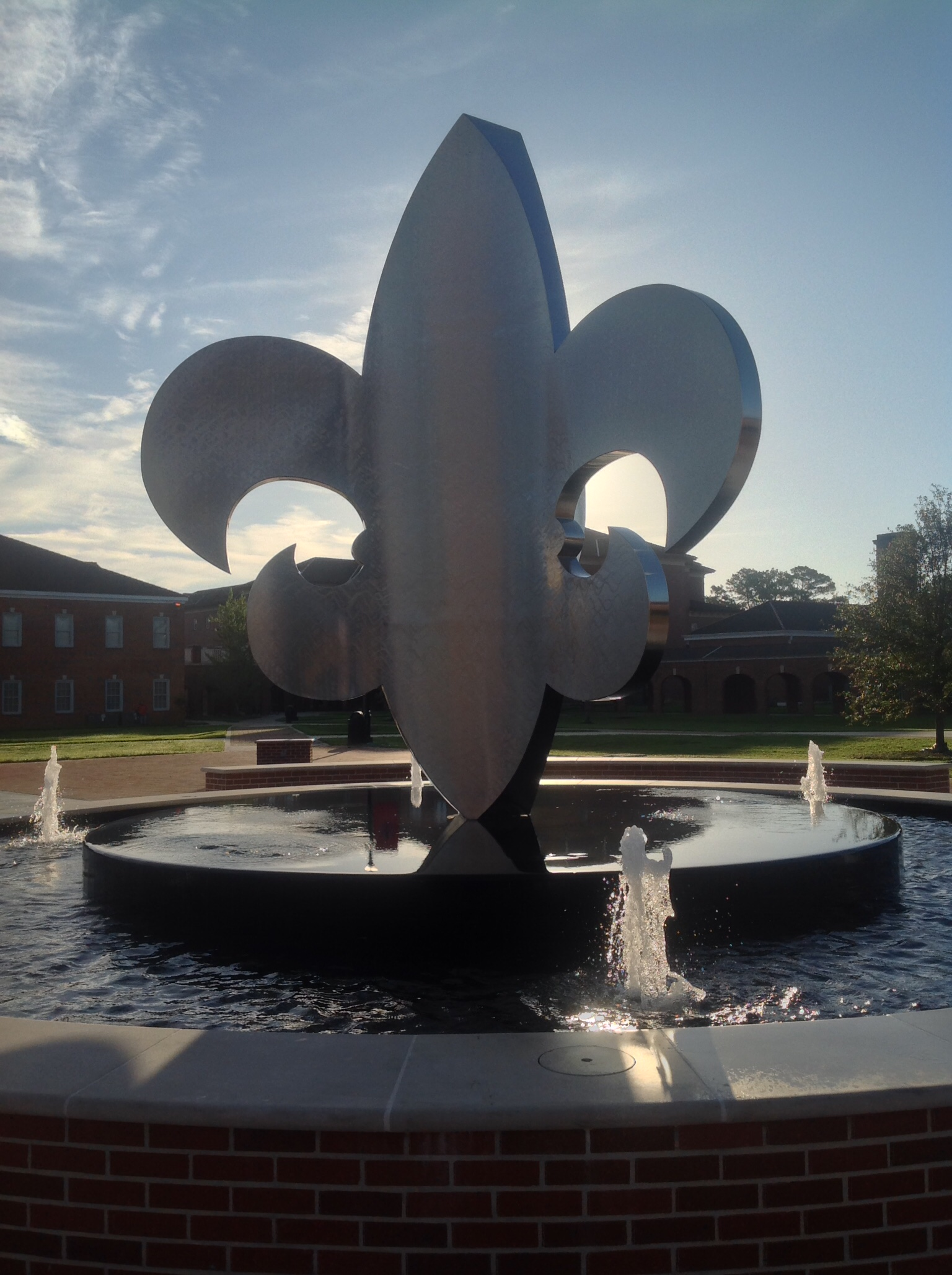 Fleur-di-lis fountain in UL Quad.